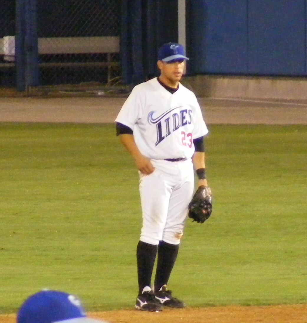 César Crespo (en), of the Norfolk Tides (en), taken at a game in Harbor Park against the Columbus Clippers